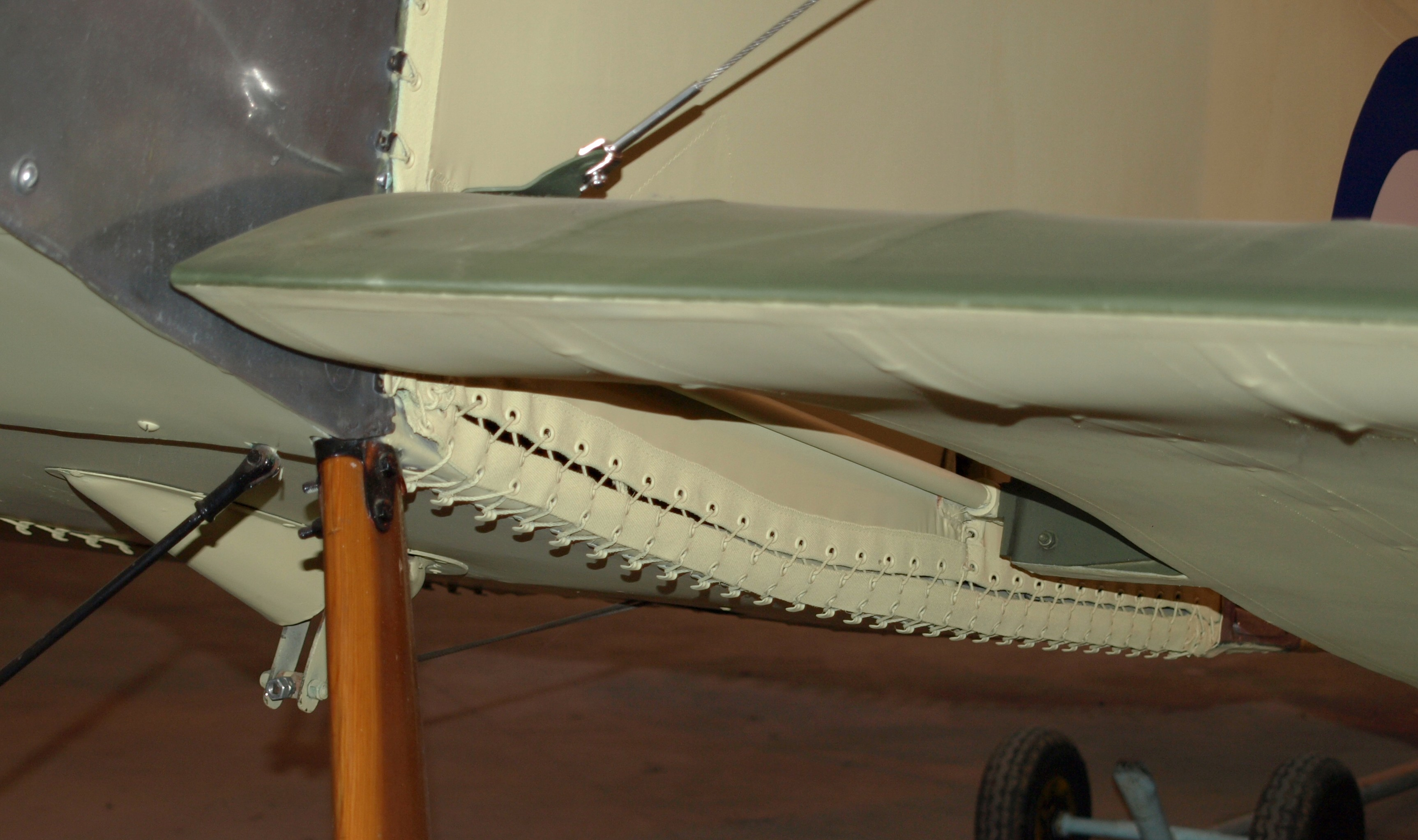 Wing root detail of a Sopwith Pup aircraft at the Shuttleworth Collection